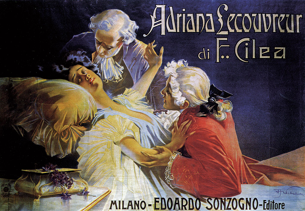 Poster for the opera Adriana Lecouvreur by Francesco Cilea